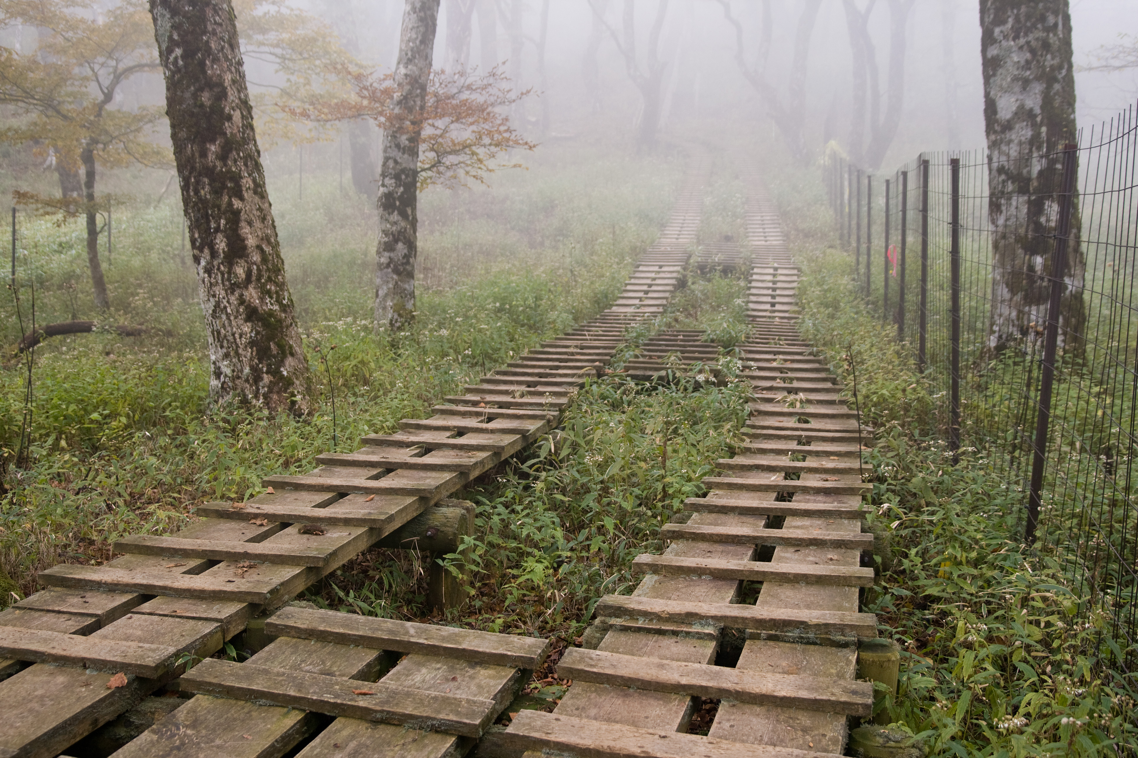 Tennōji ridge (天王寺尾根 Tennōji-one) climbing trail in Tanzawa Mountains, Kanagawa Pref., Japan.